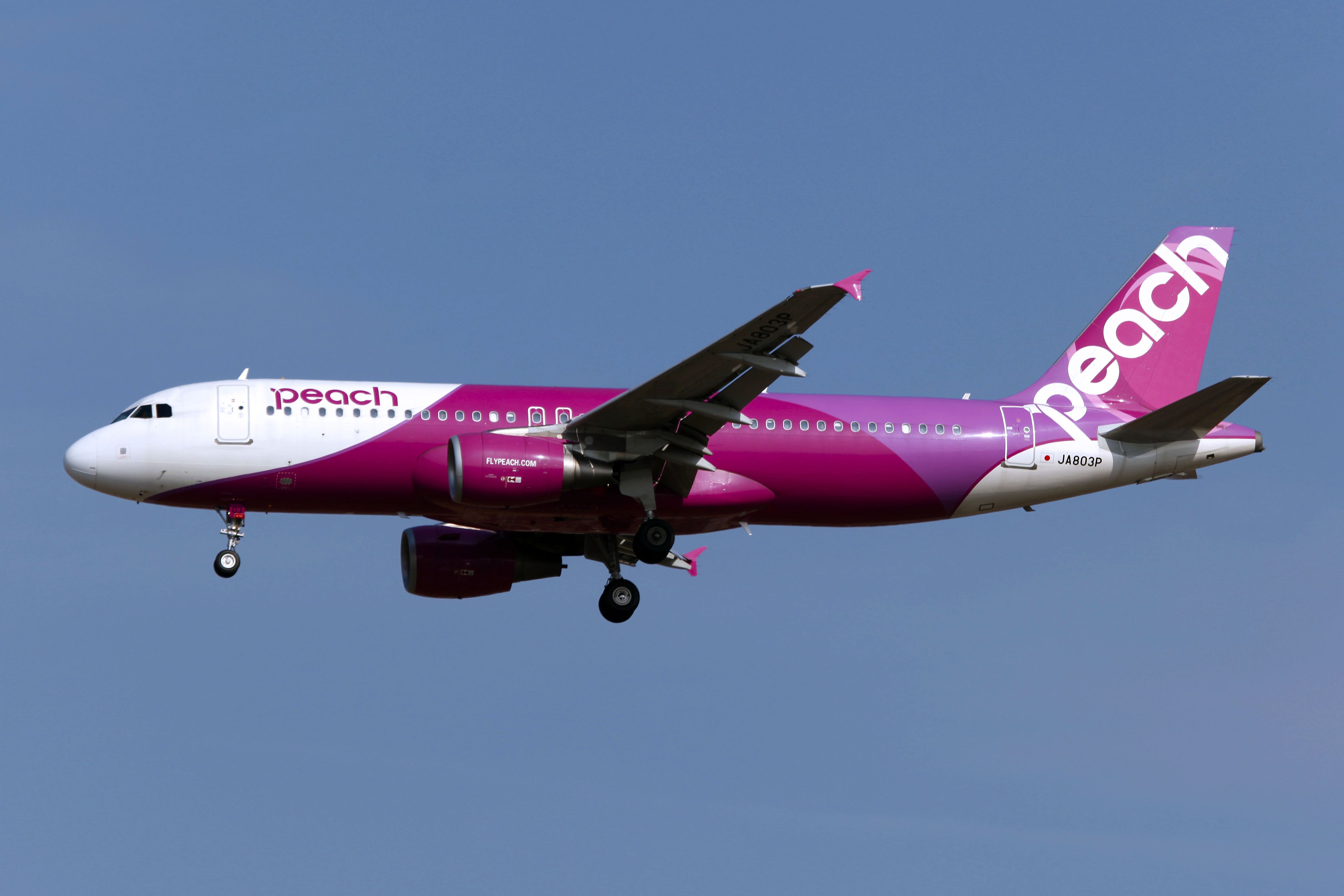 JA803P Peach Airbus A320-214 Seoul Incheon International Airport [ICN].